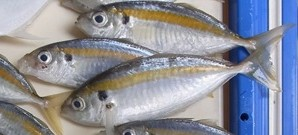 Selaroides leptolepis caught in Palau